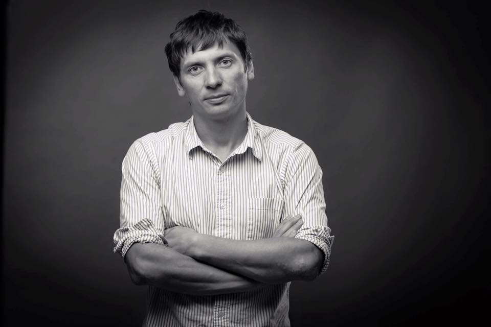 CEO